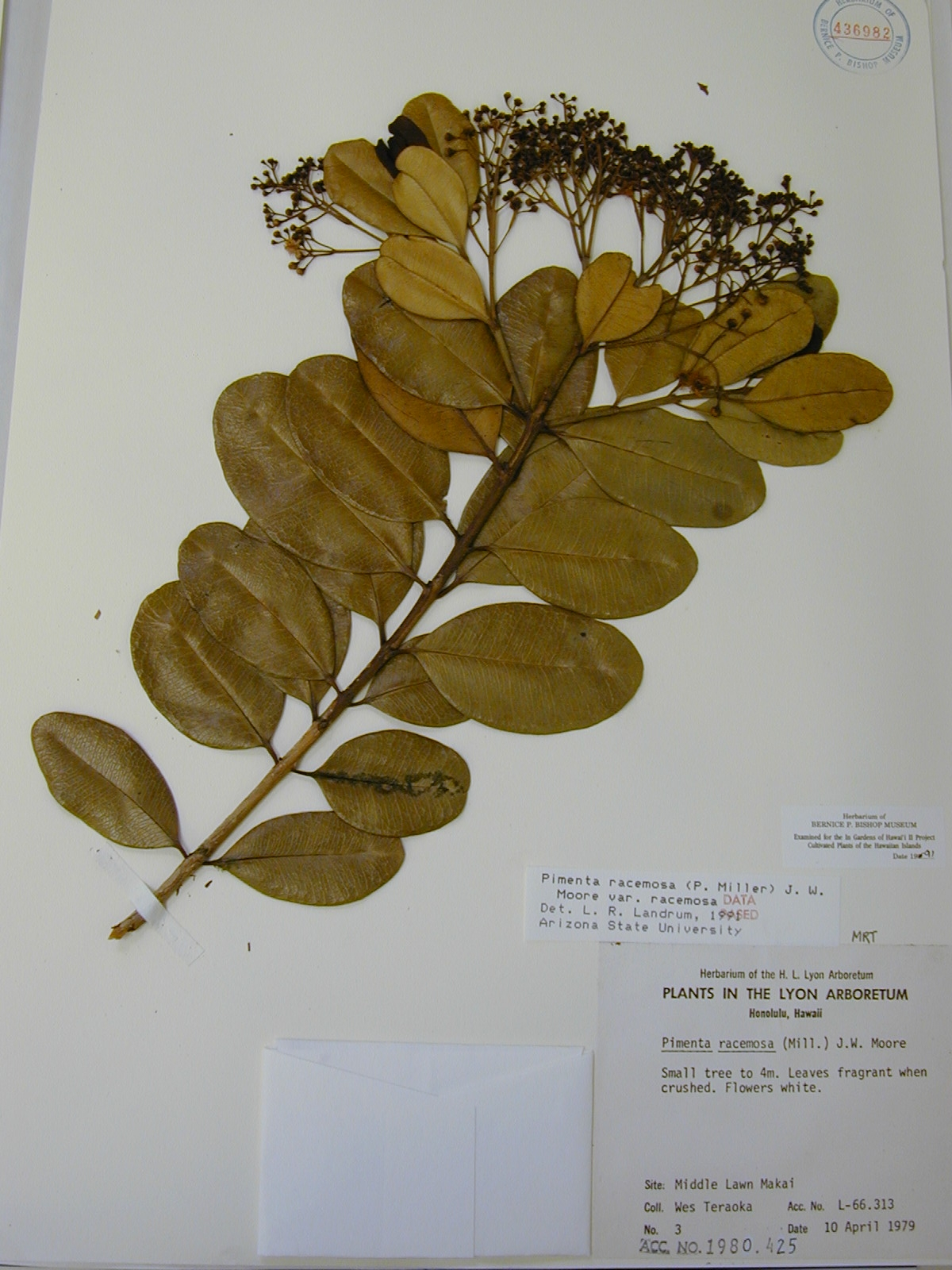 Pimenta racemosa (BISH specimen). Location: Oahu, Lyon Arboretum